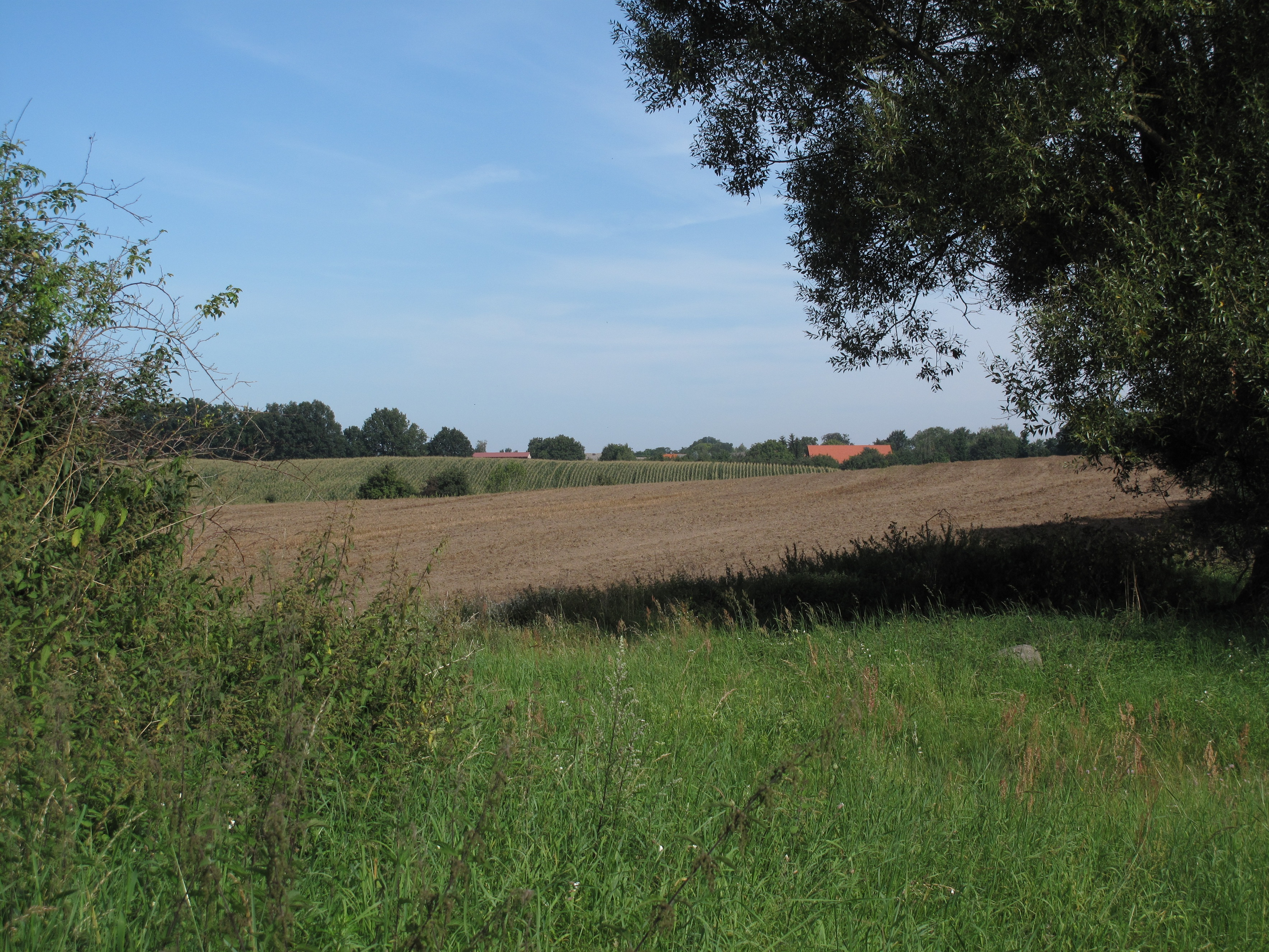 Agricultural and meadow landscape in the south of Hohenstein. The village Hohenstein is a civil parish (Ortsteil) of the town Strausberg in the district Märkisch-Oderland, Brandenburg, Germany.